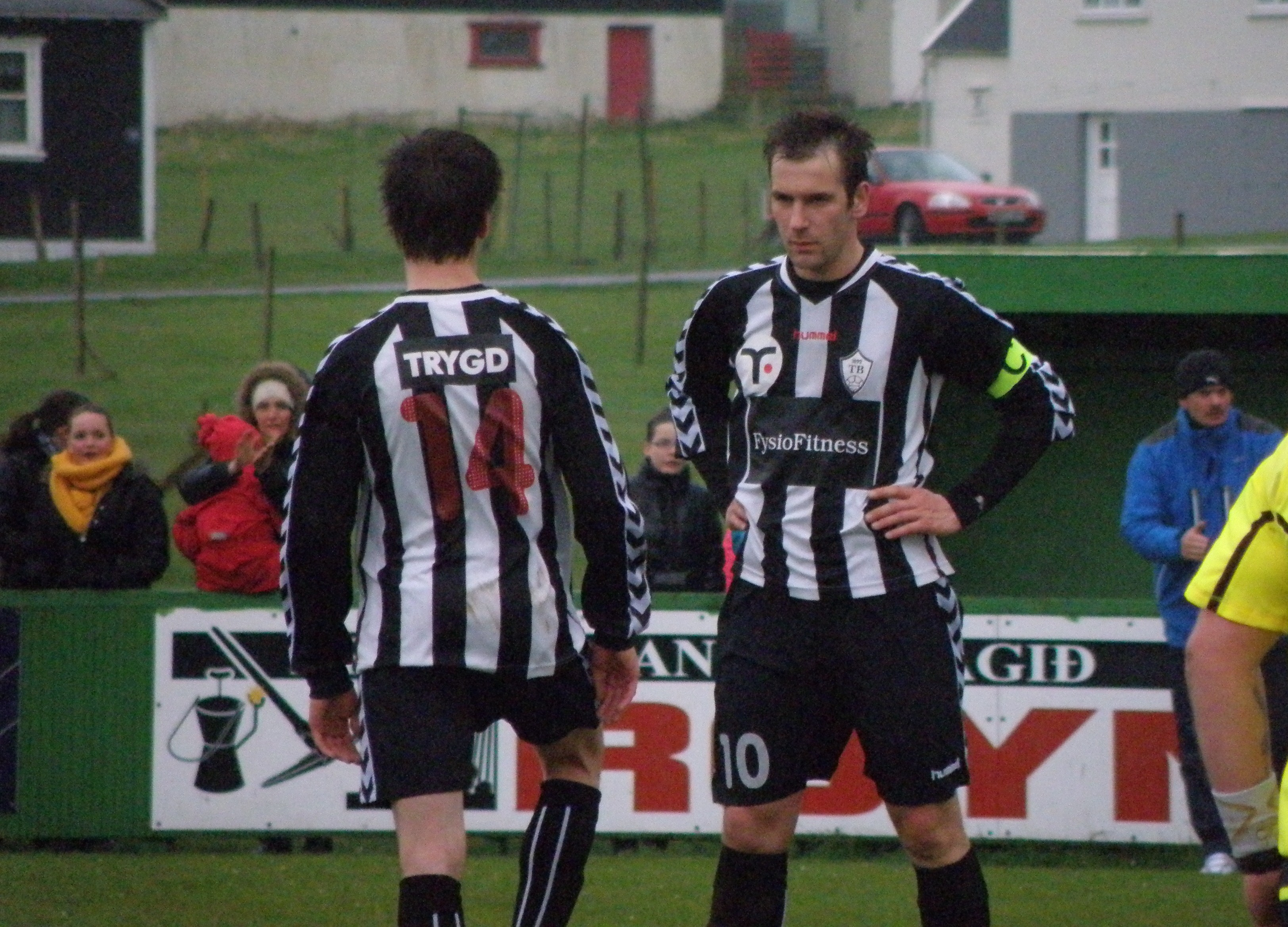 TB Tvøroyri football players in the 1. division match between TB Tvøroyri and FC Suðuroy. The result was 2-2. These two players are Rógvi Joensen (14) and Bárður Dimon (10). TB is short for Tvøroyrar Bóltfelag, it is the oldest football club of the Faroe Islands, founded in 1892 in Tvøroyri. Føroyskt: TB leikarar í 1. deildar dysti í Hvalba móti FC Suðuroy. TB hevur heimavøll í Hvalba í 2011, meðan nýggi vøllurin í Trongisvági verður gjørdur. Dysturin endaði 2-2. Spælararnir á myndini eru Rógvi Joensen (nr. 14) og Bárður A. Dimon (nr. 10). Bárður er liðskipari á liðnum.